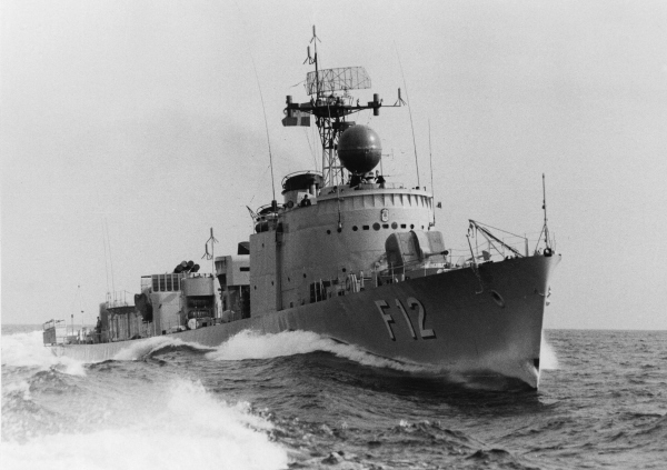 The Swedish frigate, formerly destroyer, HMS Sundsvall.